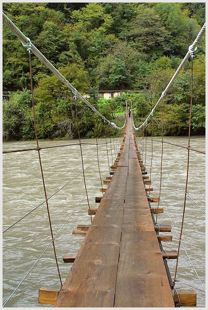 river over the river Bzyb, Abkhazia